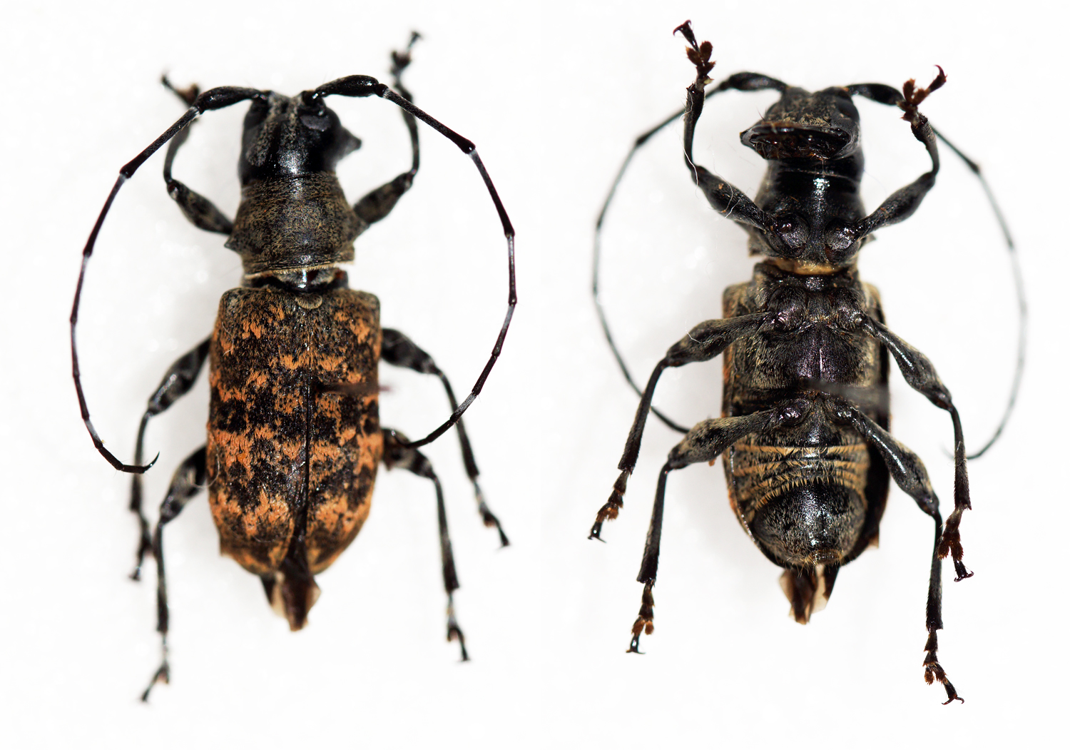 Thomson,1858 Sex: ? Data: 02-2013 - Mbalmayo - Cameroon Size: ?